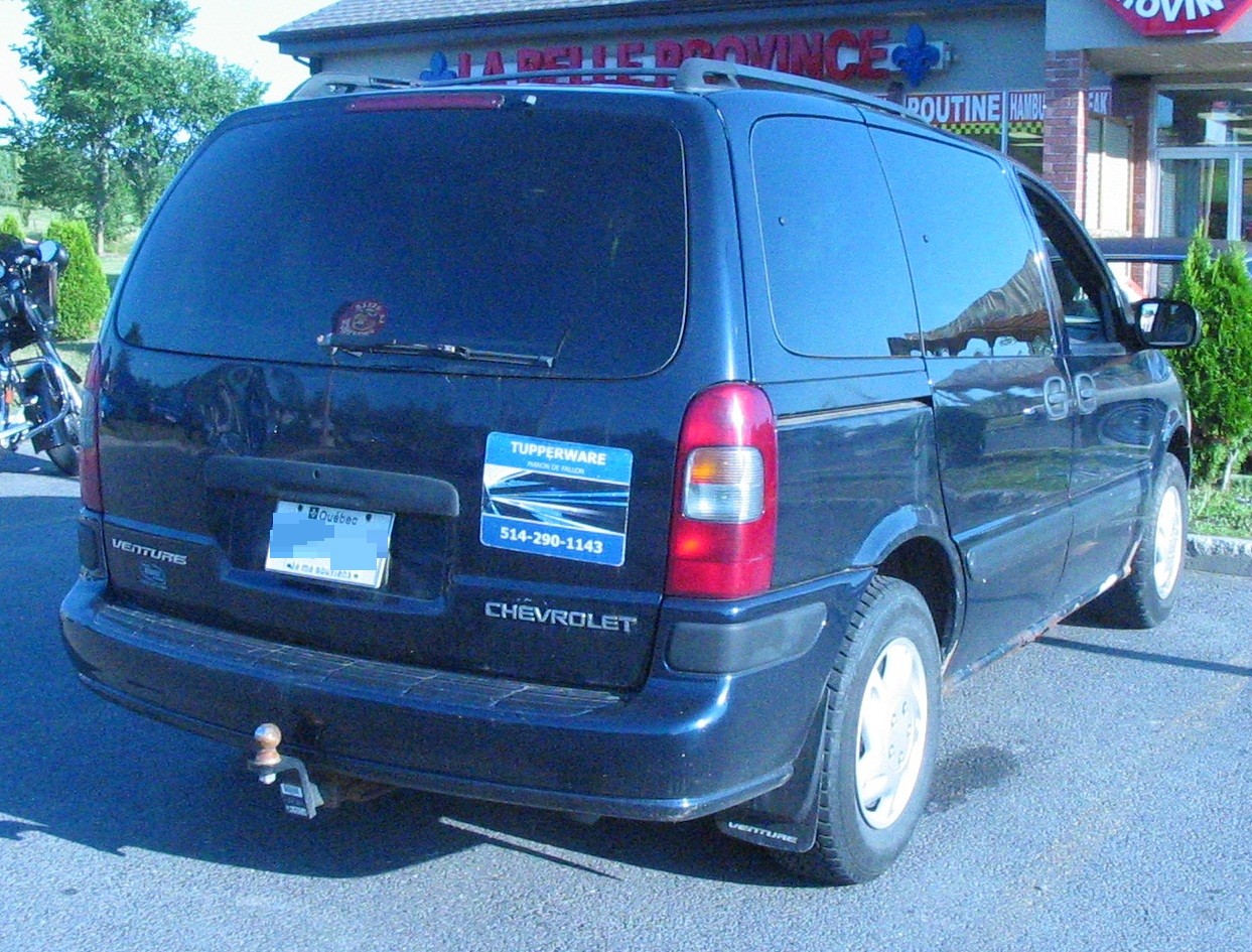 Chevrolet Venture photographed in Mont St. Hilaire, Quebec, Canada at the Auto classique VAQ Mont St-Hilaire.